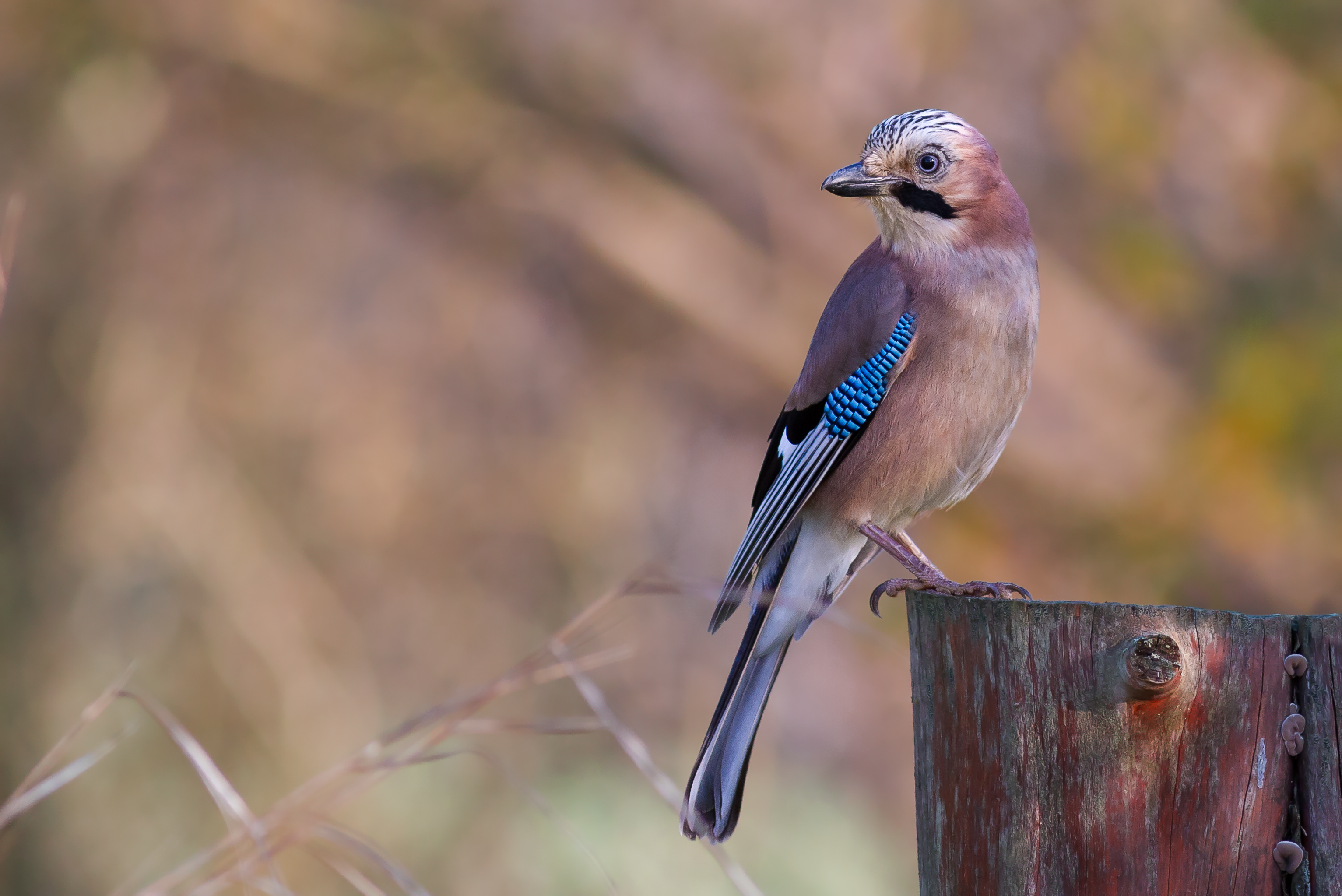 Jay.